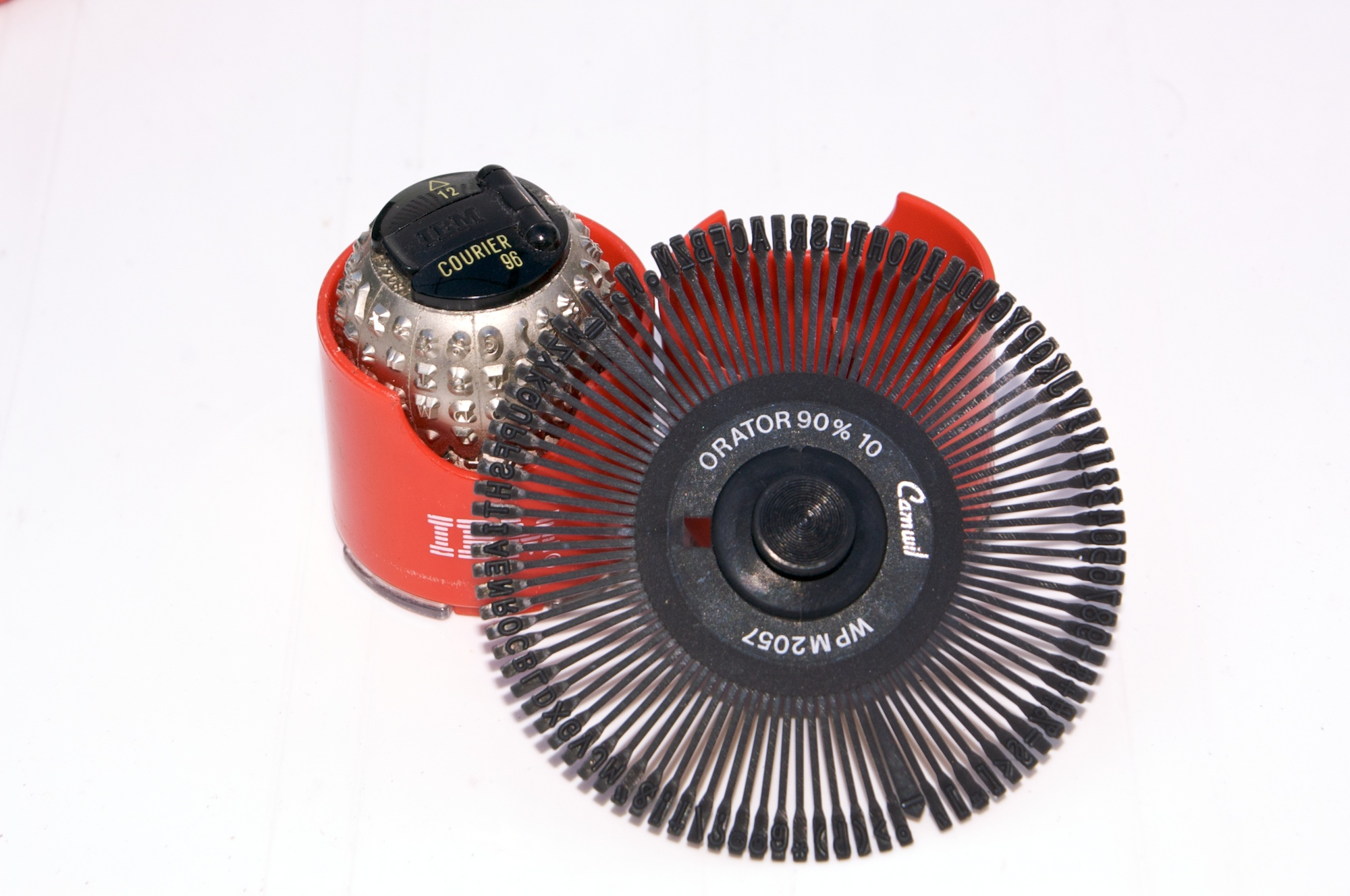 Print elements for IBM Selectric typewriter and for a Canon daisy wheel printer or typewriter. The IBM "golfball" print heads were also used by the IBM 2741 hard-copy data terminal. These were from the era of impact printers. For the daisywheel design, the wheel spins rapidly, and a single hammer strikes as the appropriate letter passes the hammer position. The selectric ball itself rotates and tilts to bring the desired symbol into position and then strikes the ribbon and paper. Both elements are very lightweight plastic, yet could withstand hours of deafening, table-shaking pounding while printing under computer control. The orator font is a large font you would have used before Power Point, to make a view graph for an old-school overhead projector. Note: This was taken outdoors, with the items sitting on one of those cheap white resin chairs. No other lighting or reflectors were uses. Makes a pretty good shadowless, distraction-free background for small items.